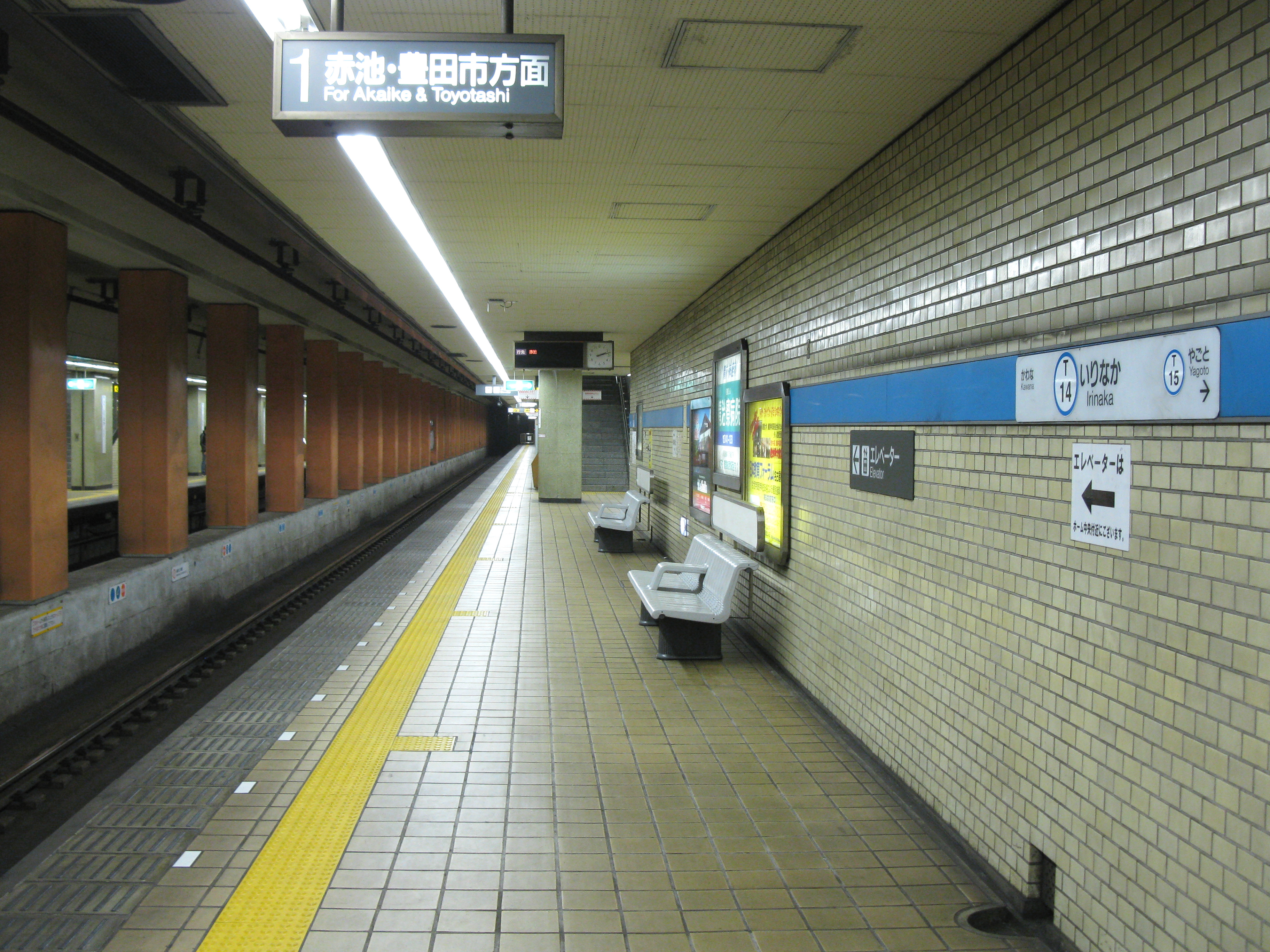 Irinaka Station platform (Nagoya Municipal Subway Tsurumai Line)